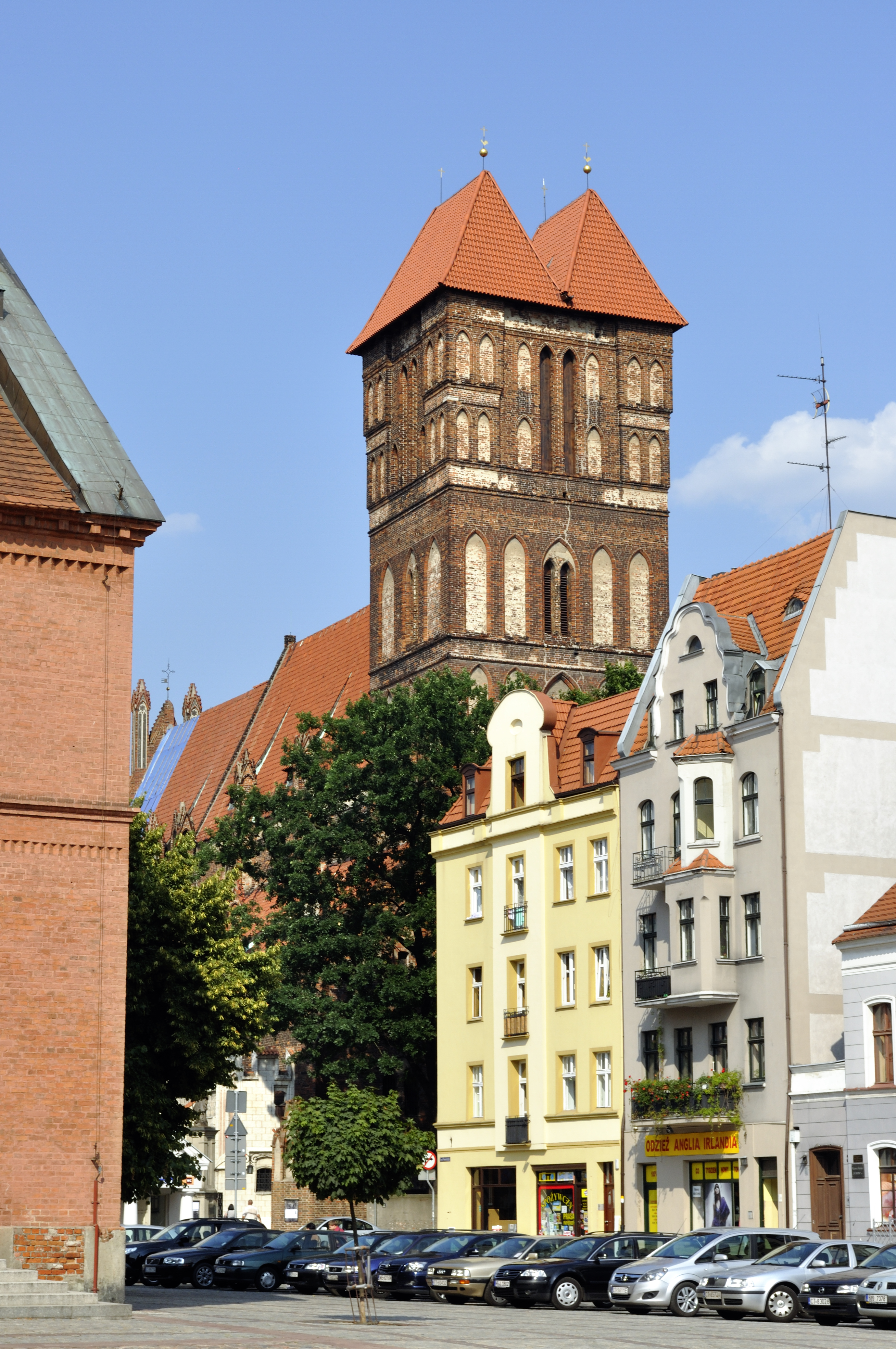 Picture taken in Toruń after Wikimania 2010 conference.